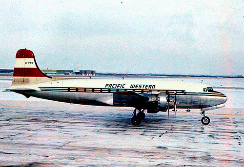 Another fallen flag that lived on for a while as Canadian Airlines International so I guess could be said to be a part of Air Canada today. I think it's a DC-4 but am open to correction.